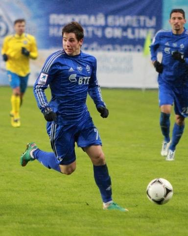 Pavel Solomatin playing for FC Dynamo Moscow in 2013.